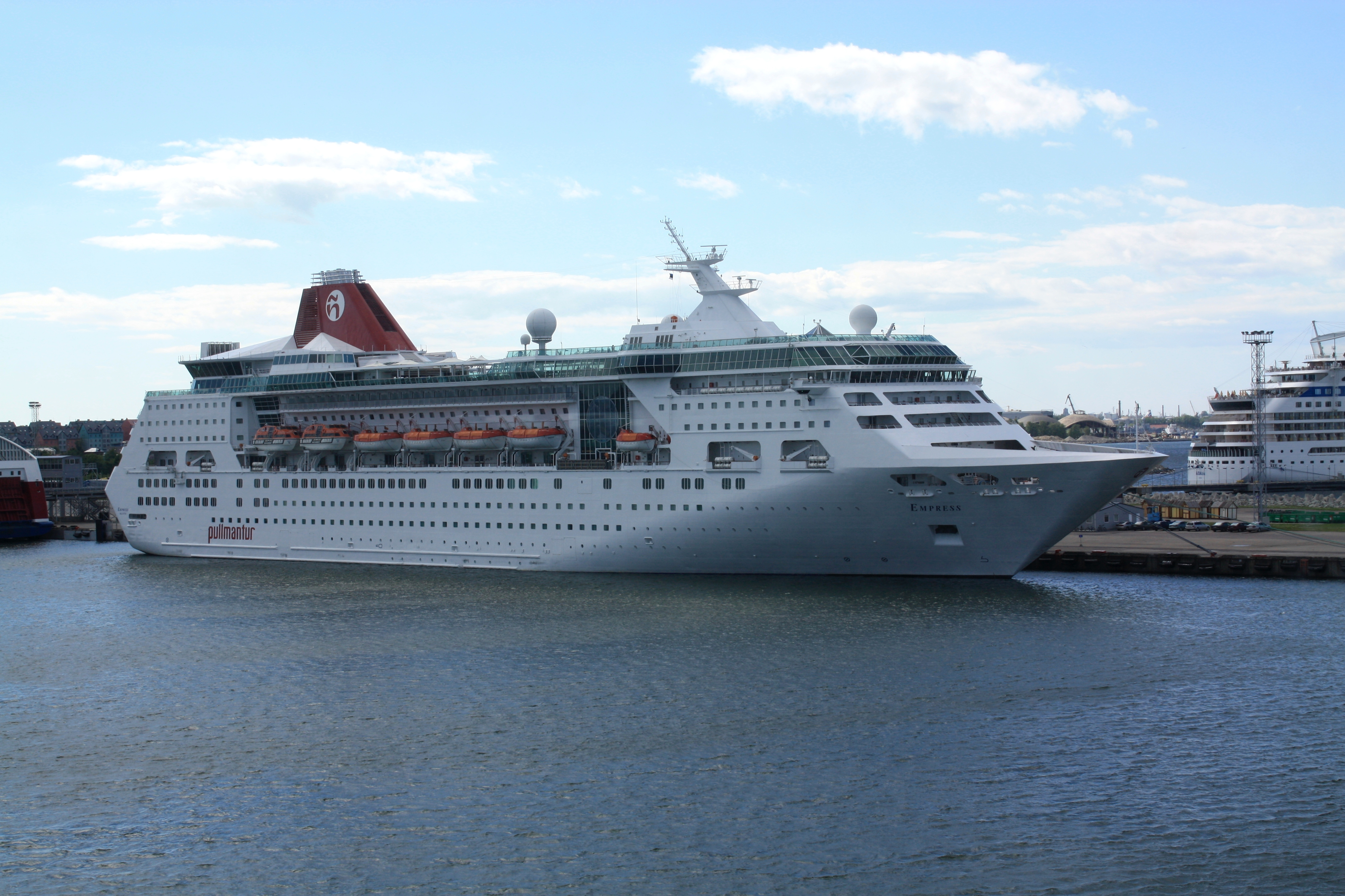 Cruise ship Empress (Pullmantur) in the Port of Tallinn